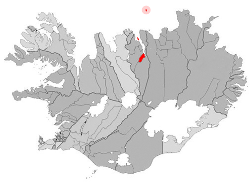 Based on Municipalities of Iceland.png.